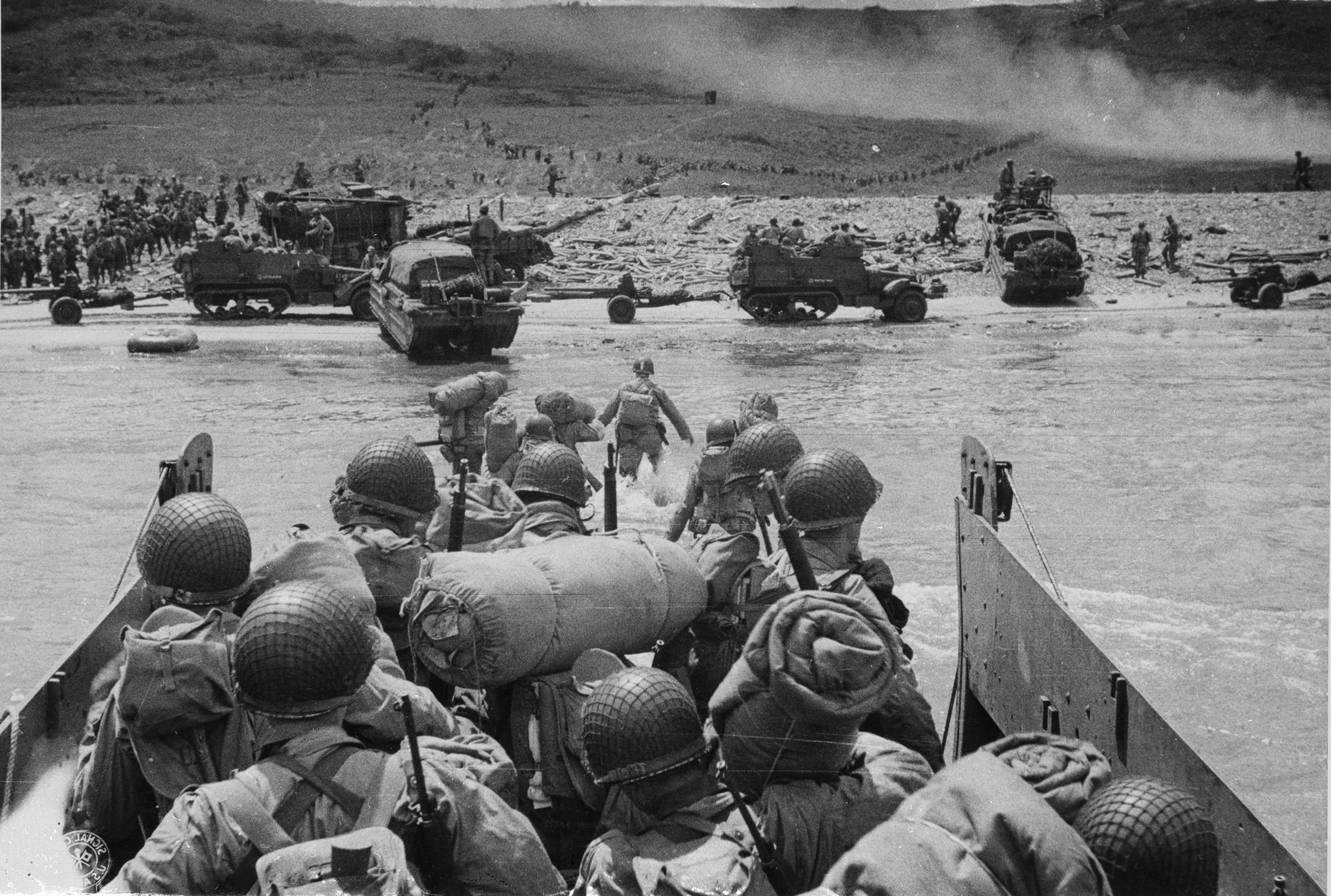 D-Day from the boat